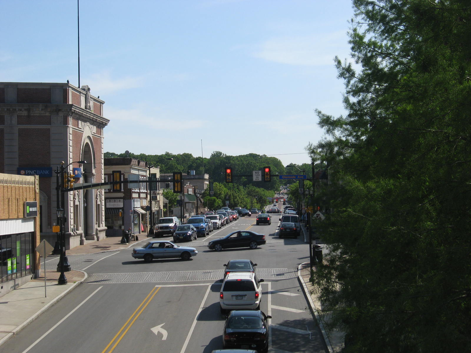 Downtown Glenside looking southwest